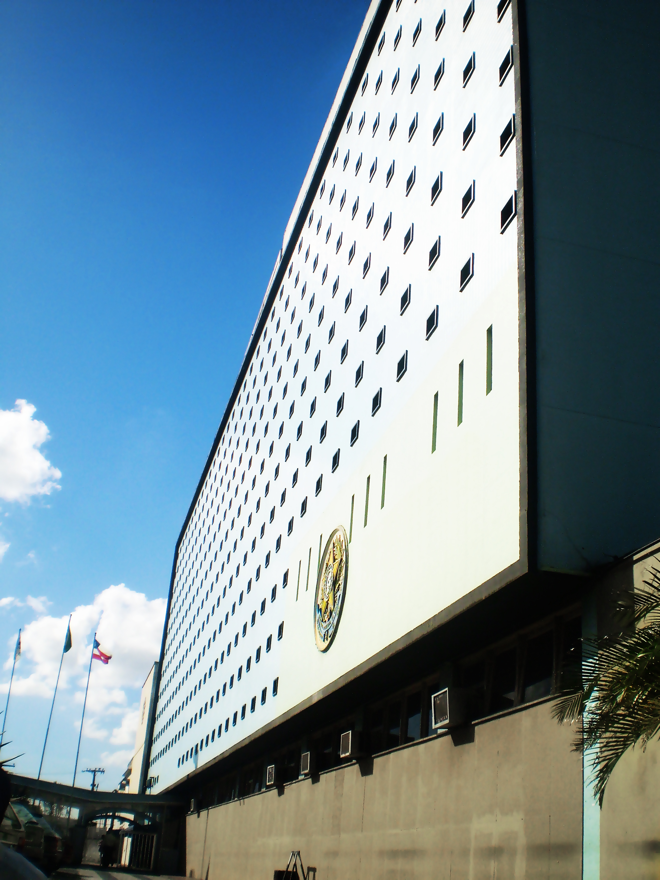 Fachada do campus de Salvador do IFBA